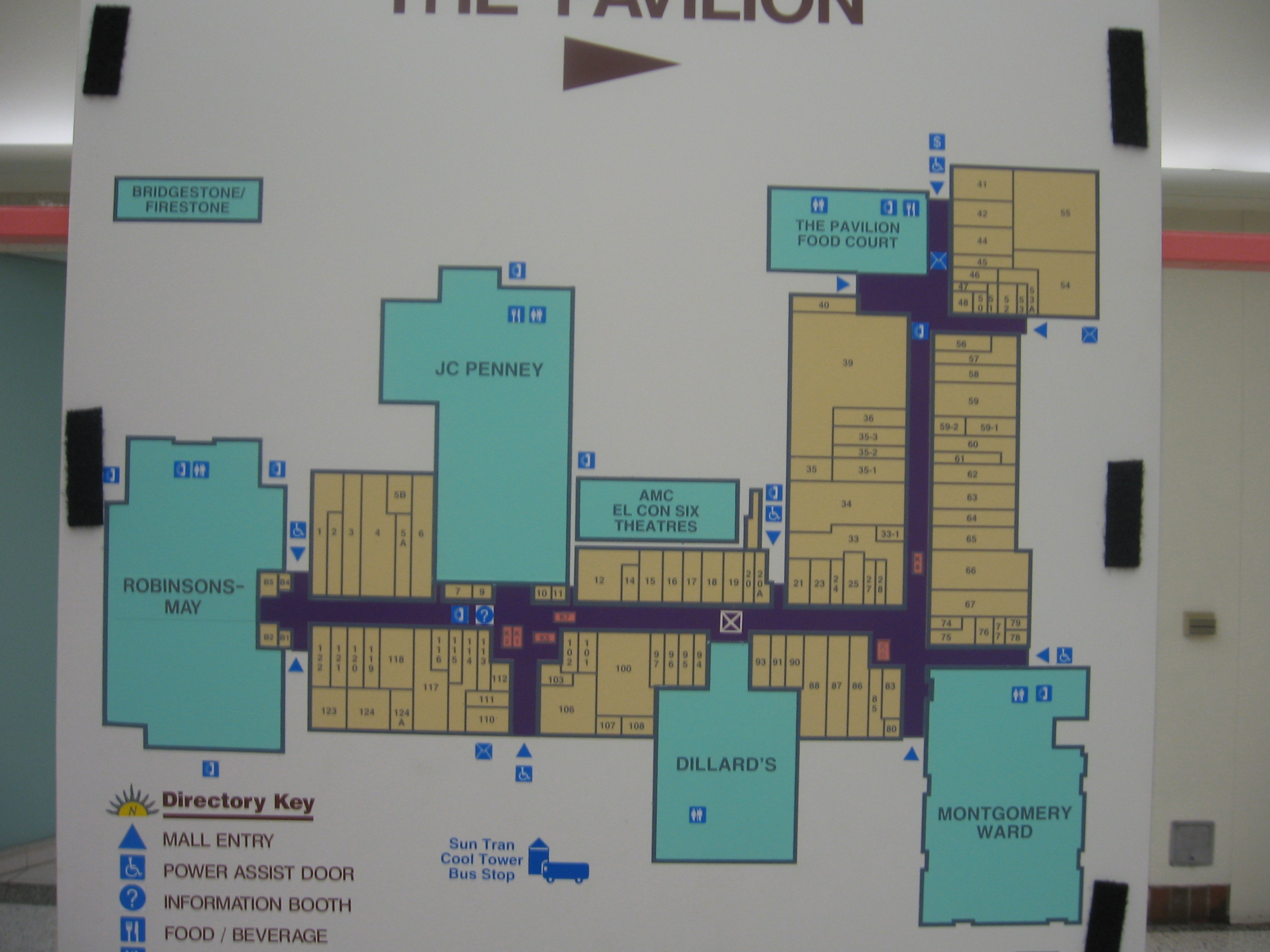 This is a photo of the map itself (I’ll provide the key/legend later).